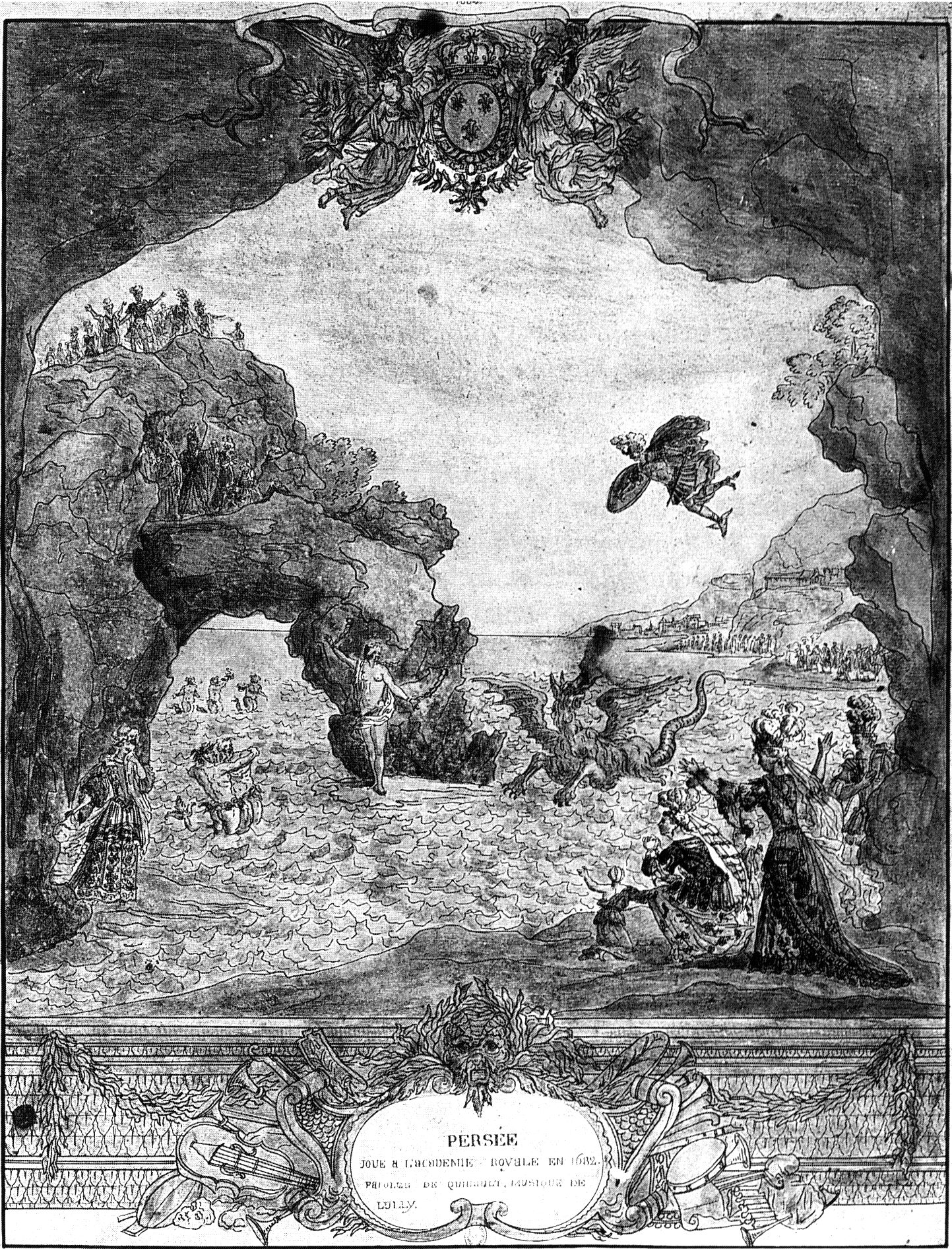 Jean-Baptiste Lully - Persée - Decor by Jean Berain